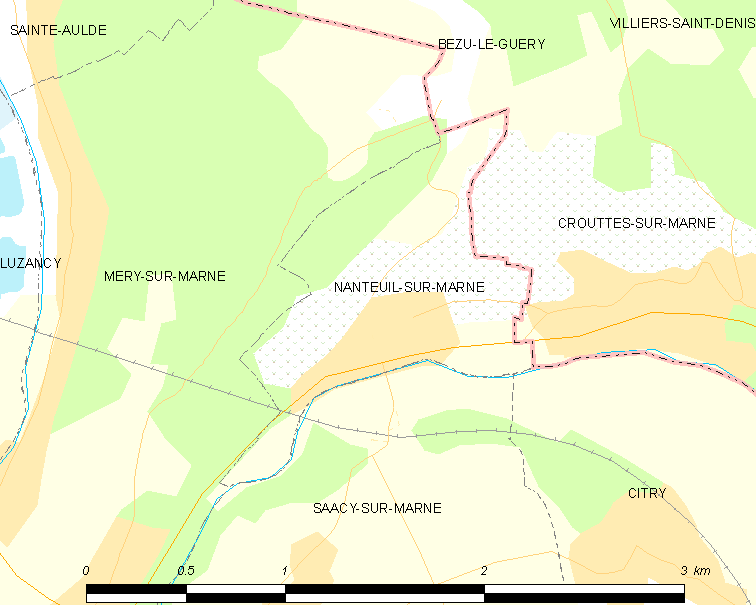 Map of French municipality Nanteuil-sur-Marne